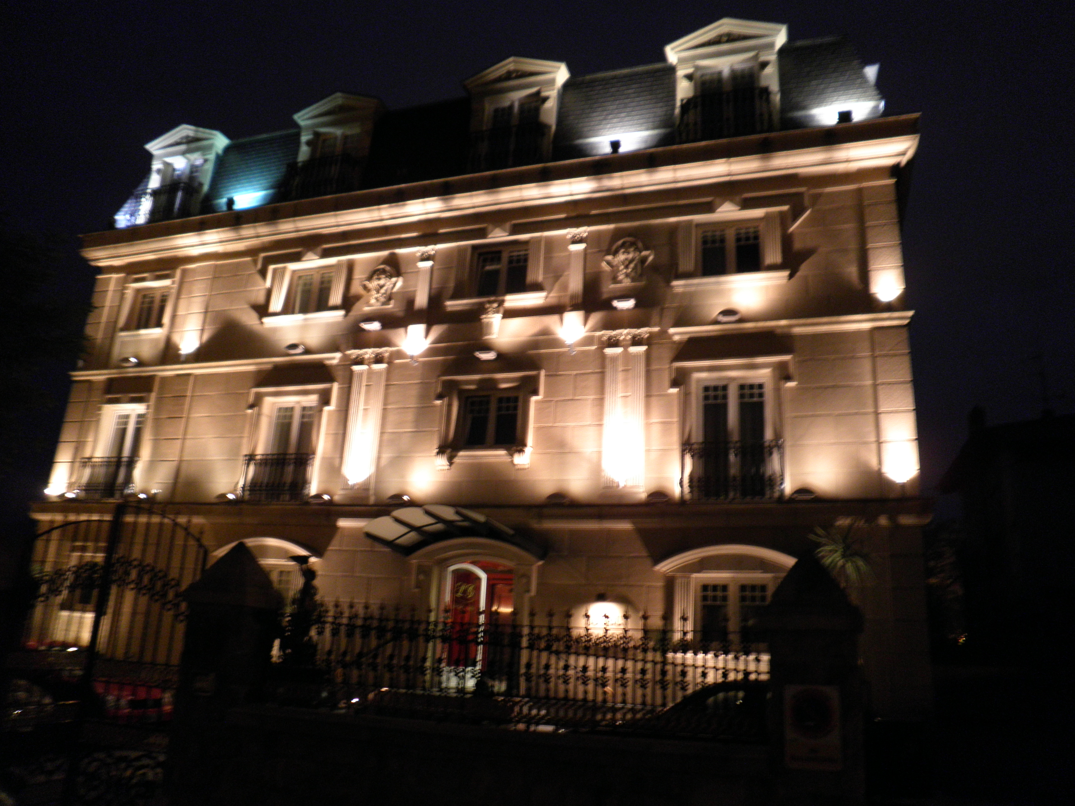 Hotel La Galeria in Ondarreta, Donostia, Basque Country.